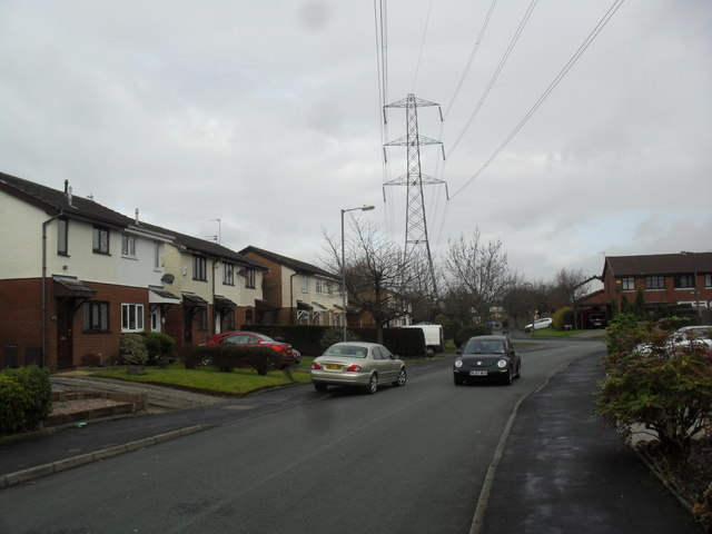 Redwood